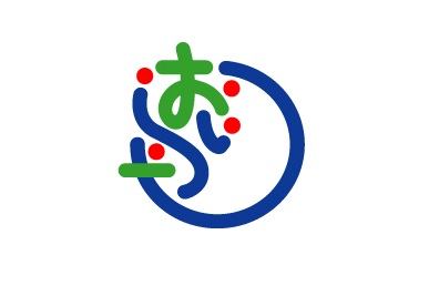 Flag of Oirase Aomori